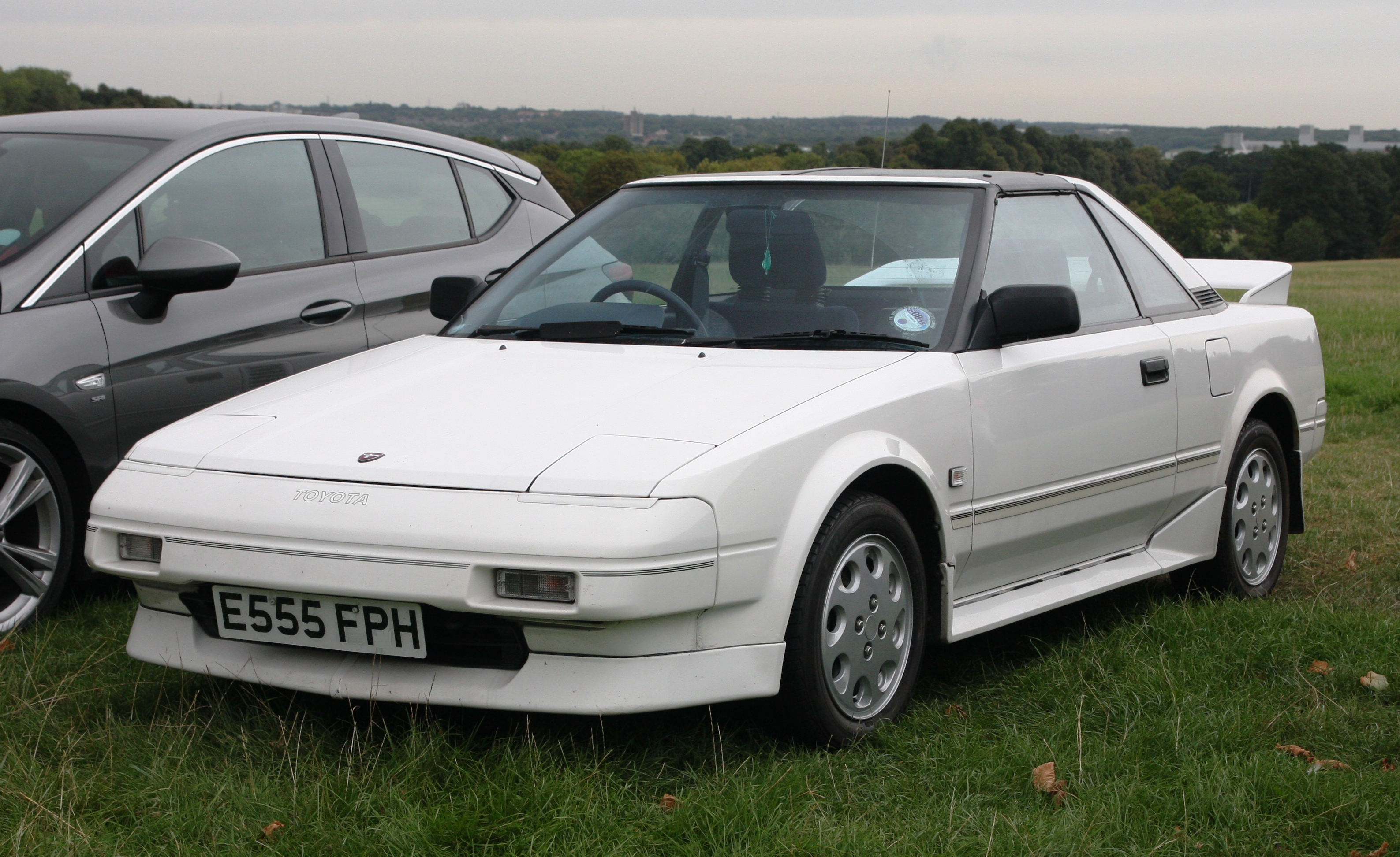 Toyota MR2 1587cc registered April 1988